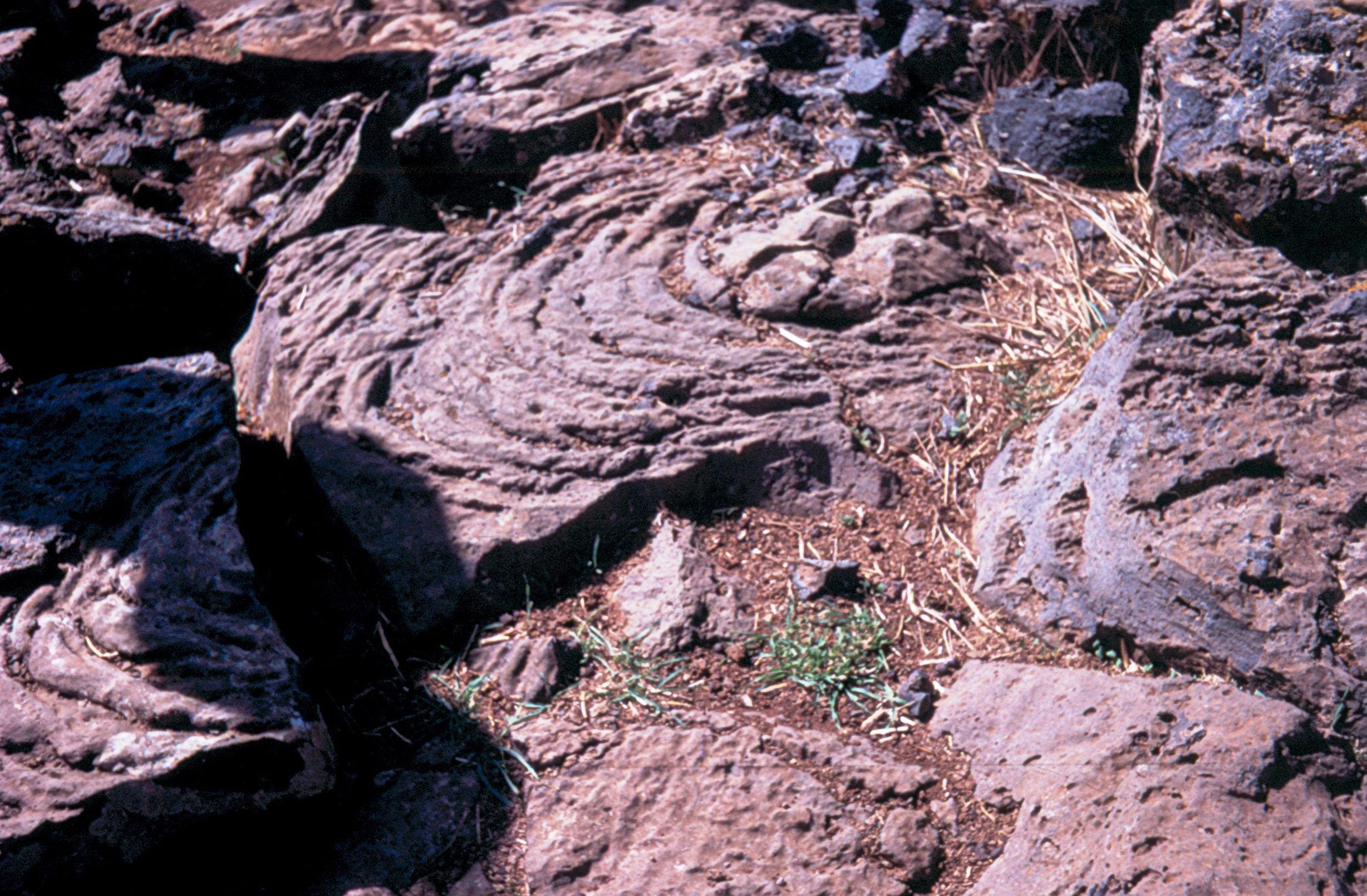 Basalt__flowing_at_Golan2